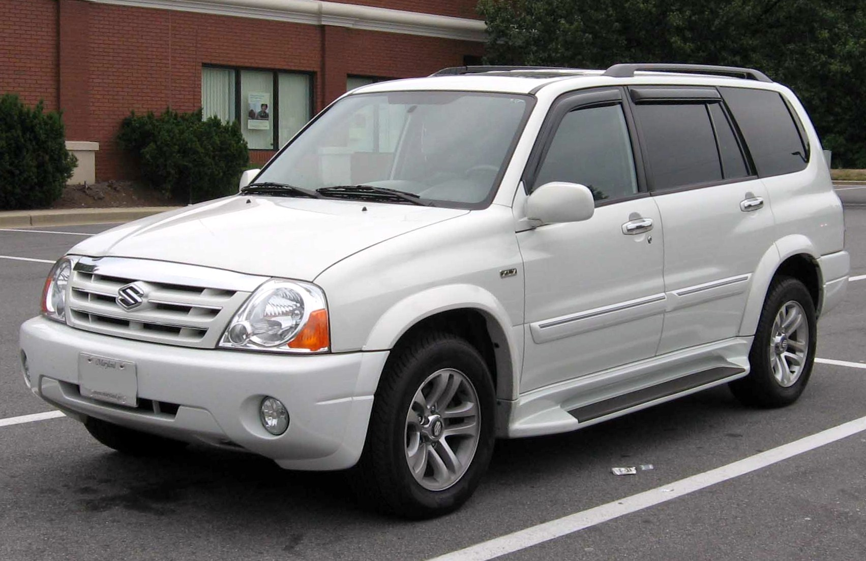 2004-2006 Suzuki XL-7 photographed in USA.